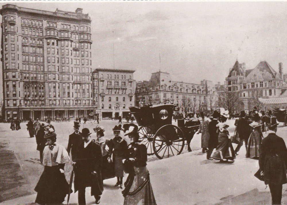 Fifth Avenue and Grand Army Plaza, New York 1896